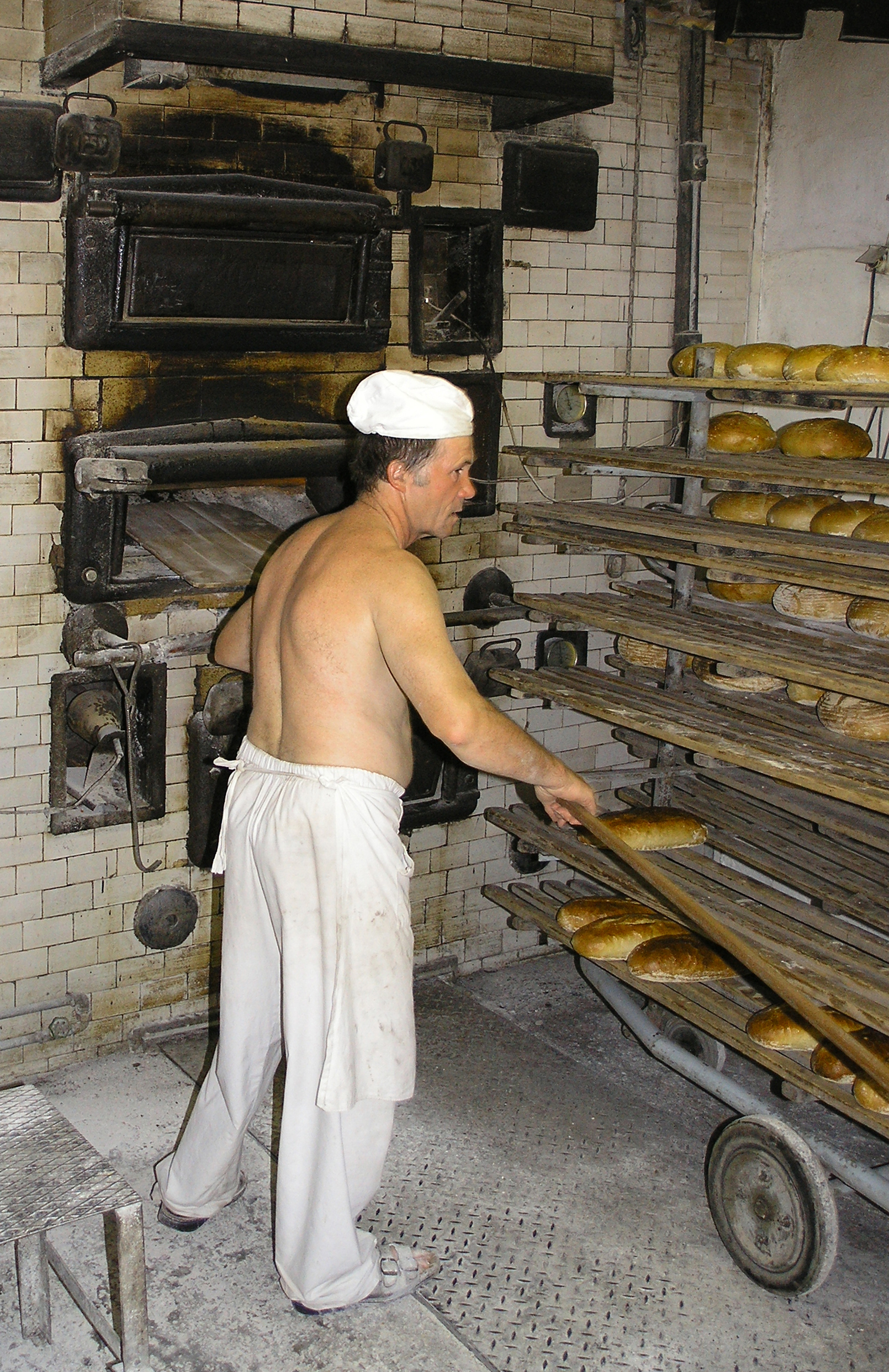 Lanckorona (Poland) - Traditional Bread Baking